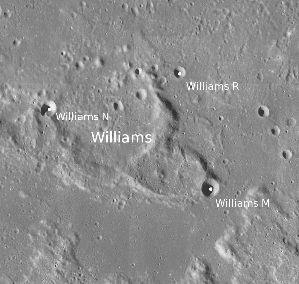 Crater Williams (detail of LRO - WAC global moon mosaic; Mercator projection)